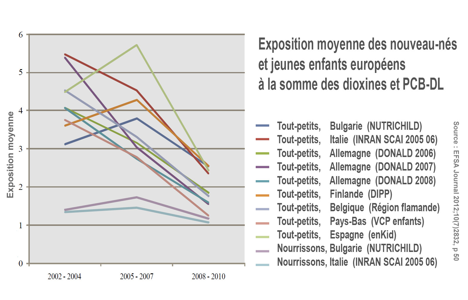 Average exposure of European infants and toddlers to the sum of dioxins and DL-PCBs.